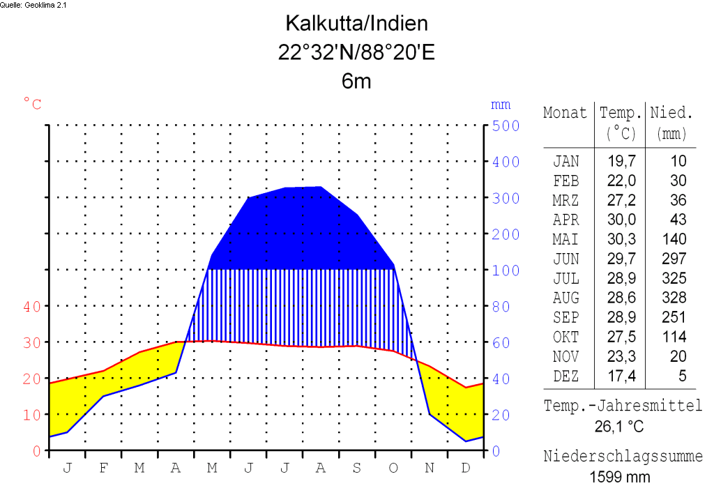 climate chart in the format by Walter and Lieth, metric, °Celsisus and millimeters, made with Geoklima 2.1